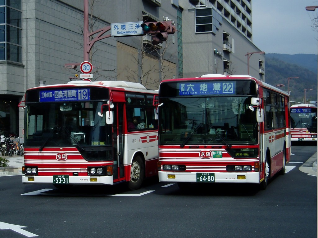 the view of "SOTOKAN-SANJO" crossing with Keihanbus dployment at "YAMASHINA-Office"